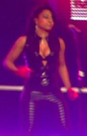 Che'Nelle at General Motors Place in Vancouver.